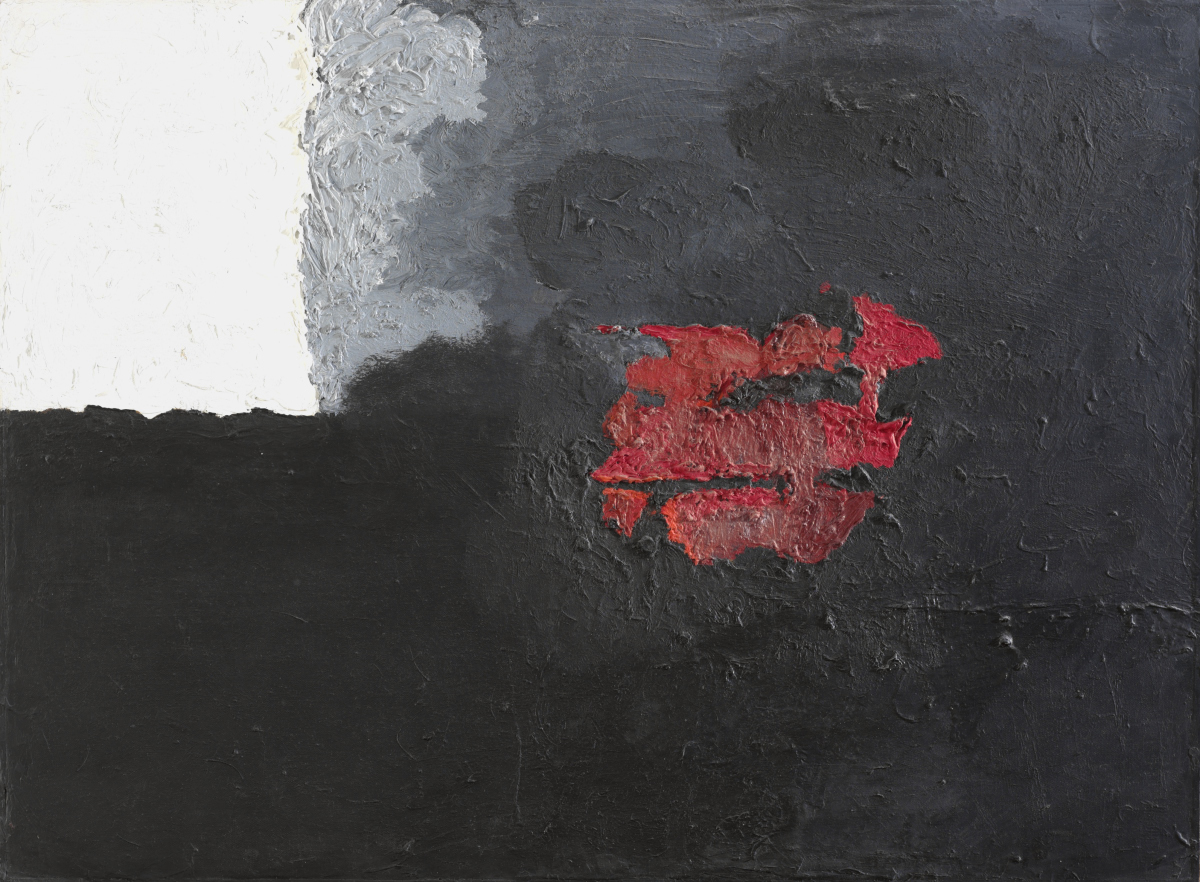 Sunset, oil on canvas, 50 x 75 cm (1978)